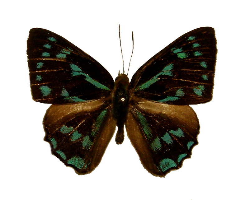 Simiskina phalia morishitai, male upperside